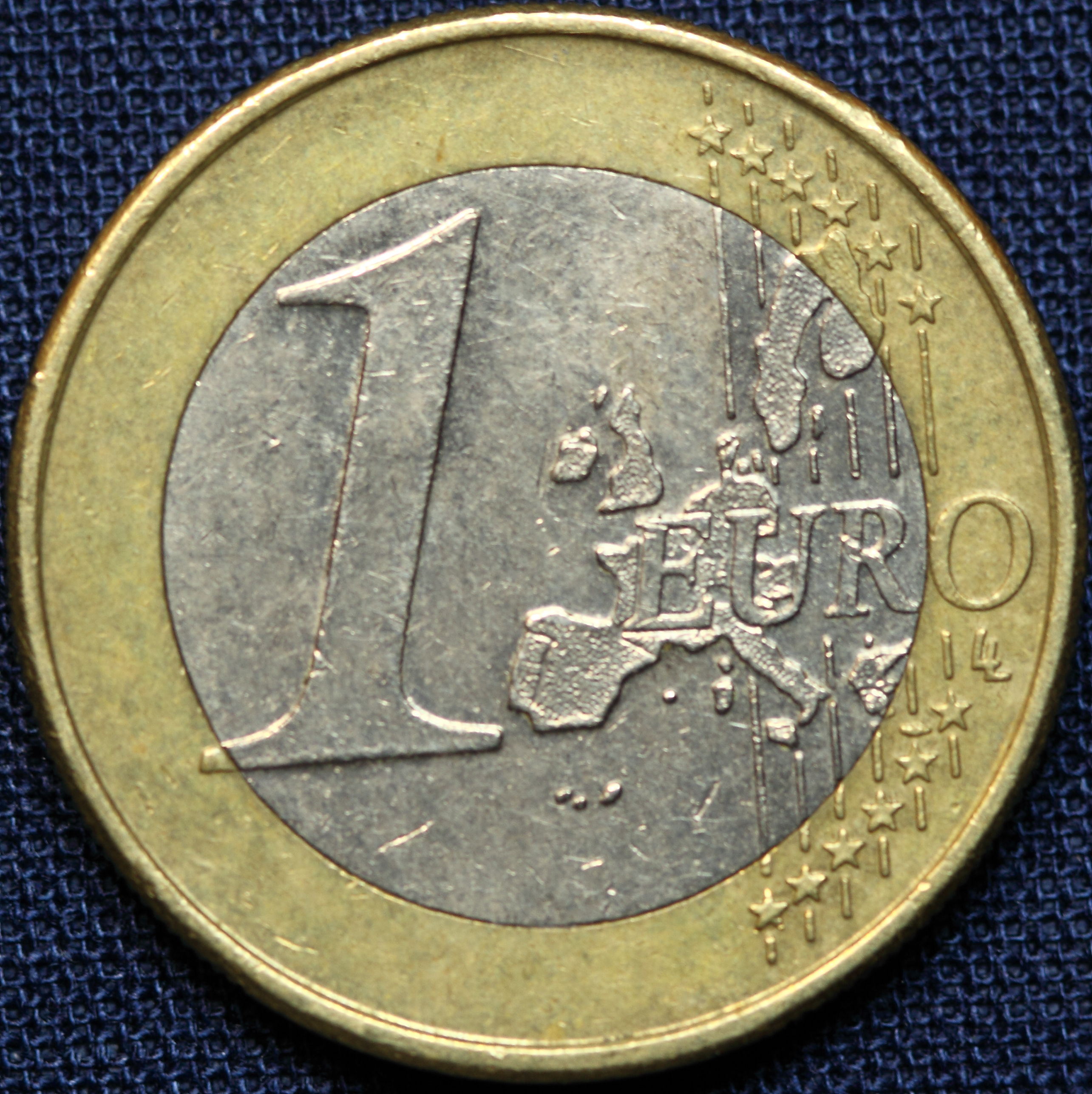 1 Euro Common Face (Old Design)